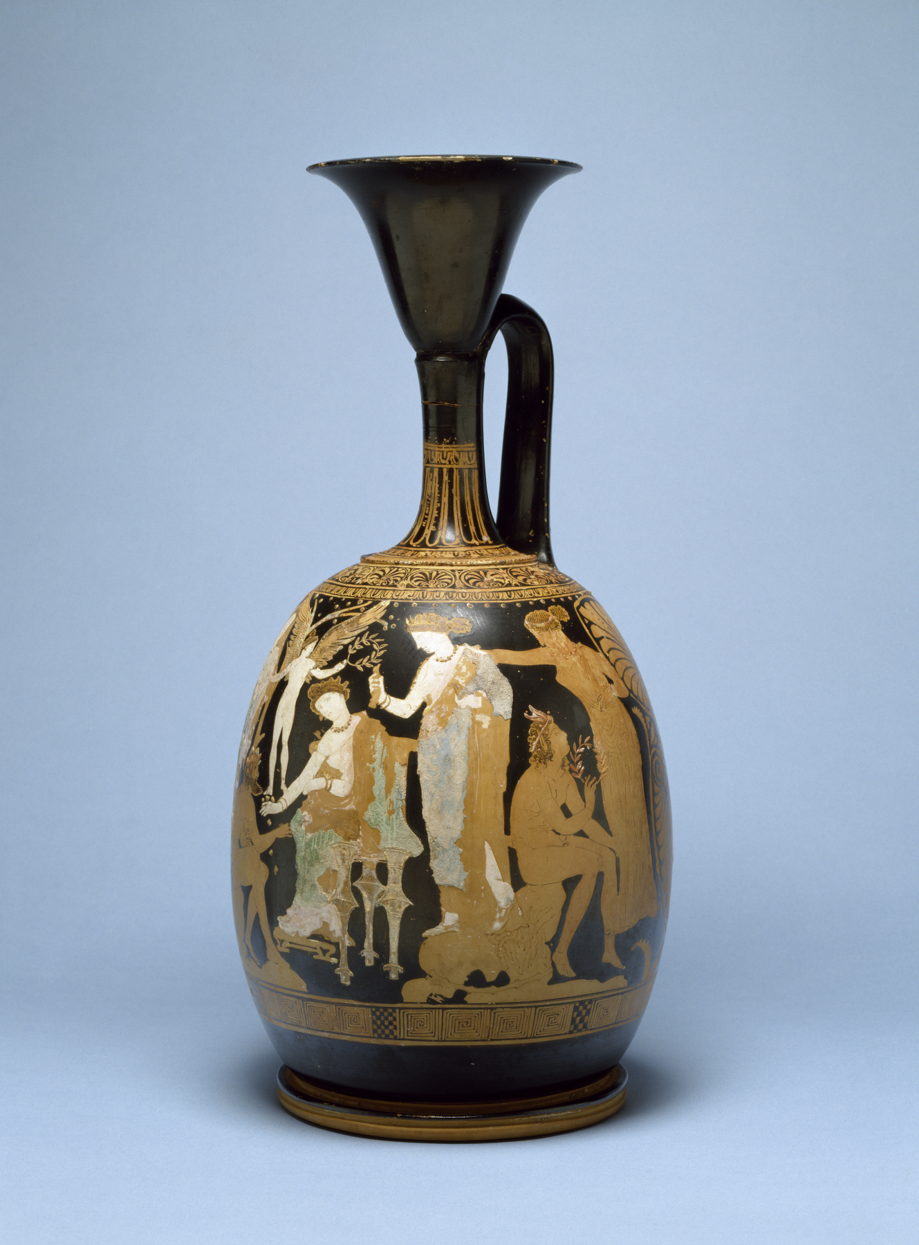 This vase is an exquisite example of the "Kerch" ware, distinguished by graceful poses, delicate details, gilding, and abundant colors. The subject is games of love. A seated nymph triumphs at "knucklebones," a game in which both players toss bones from the ankle of a sheep into the air and try to catch them on the back of their hand. Her unsuccessful opponent is a satyr. Behind him stands Aphrodite between two Eros figures, who are offering laurel wreaths of victory to the nymph and to the youth at far left, dressed as a bridegroom.